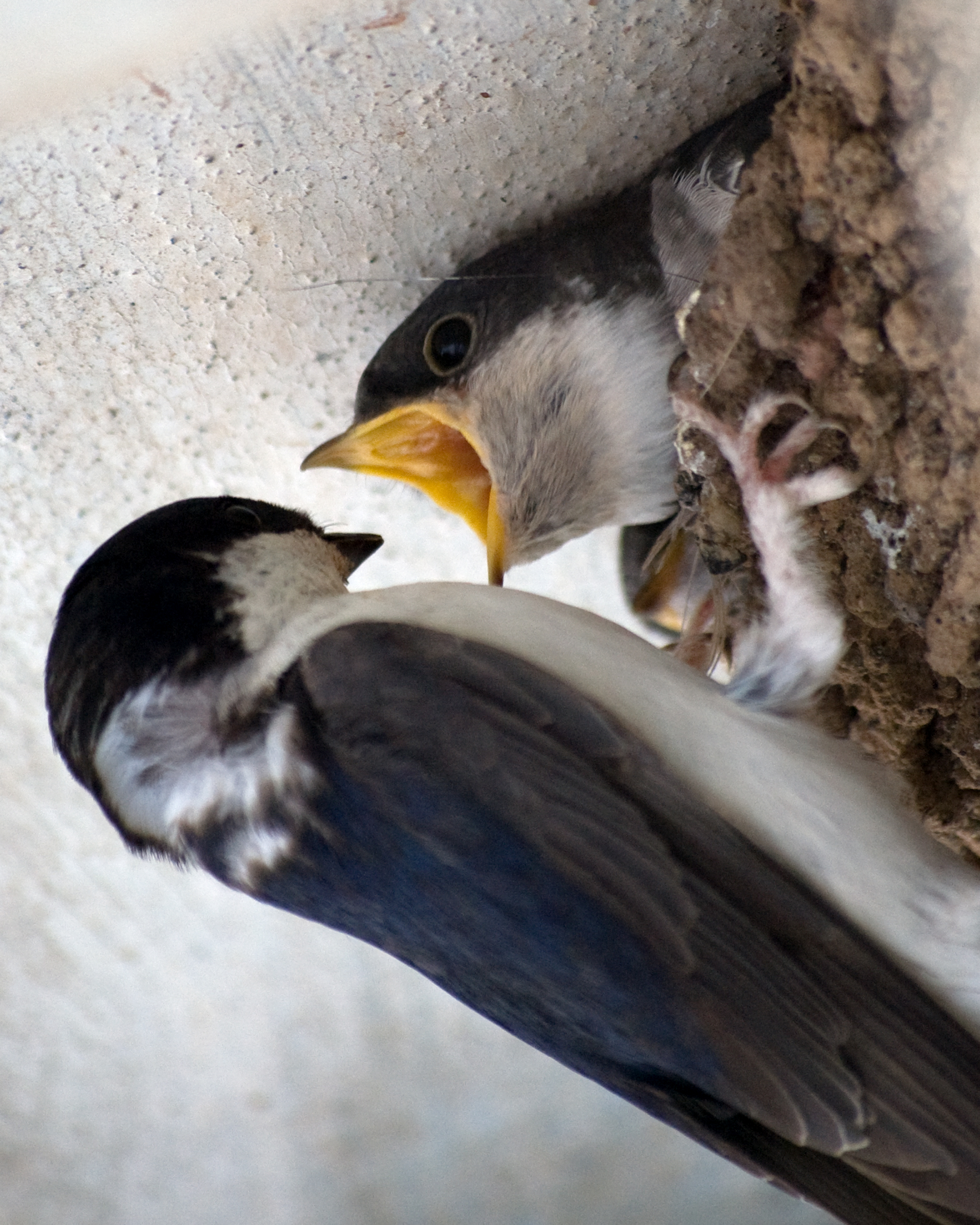 Adult House Martin feeding one of chicks, near Crewe, Cheshire, UK